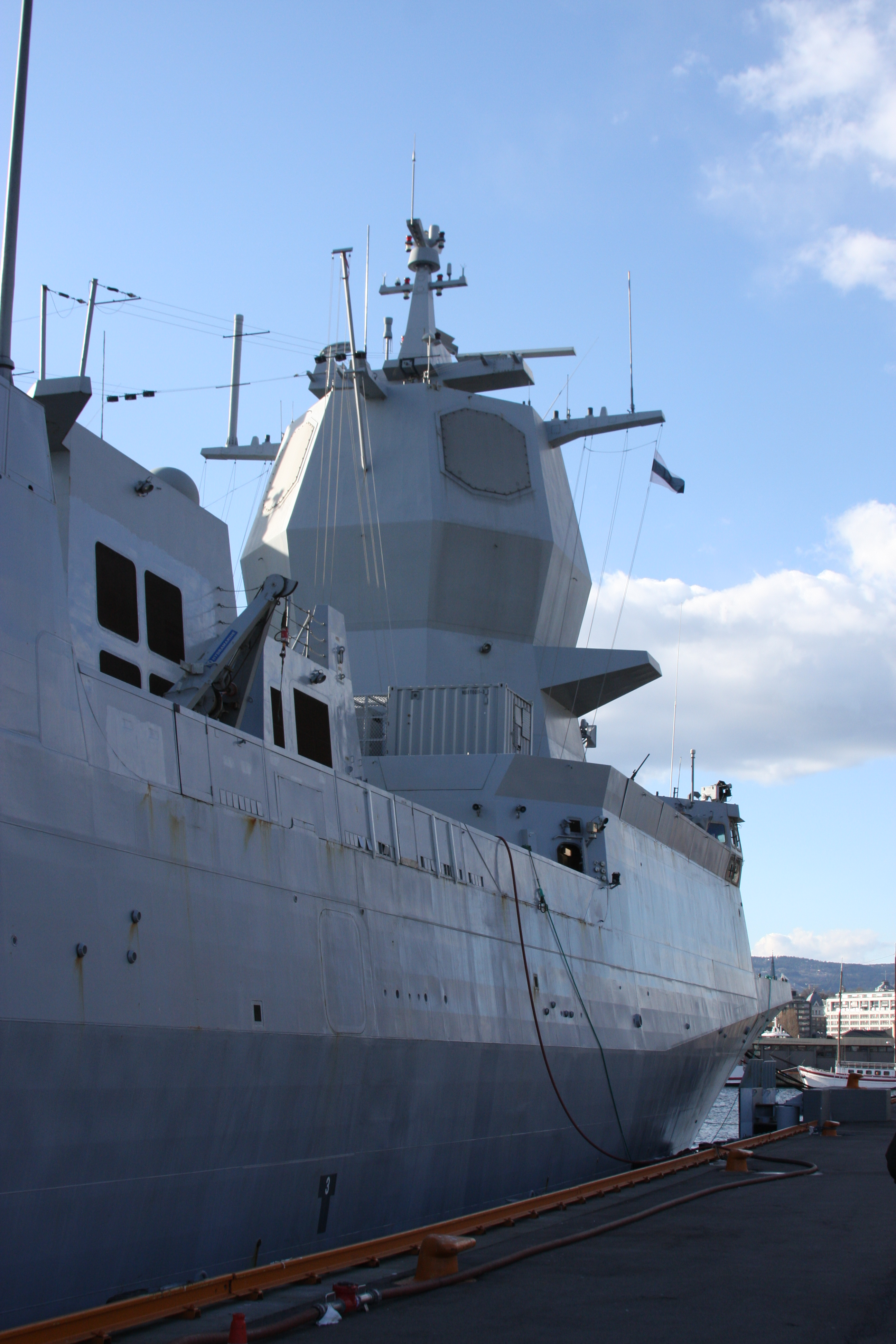 KNM Fridtjof Nansen, a Norwegian frigate, in Oslo.